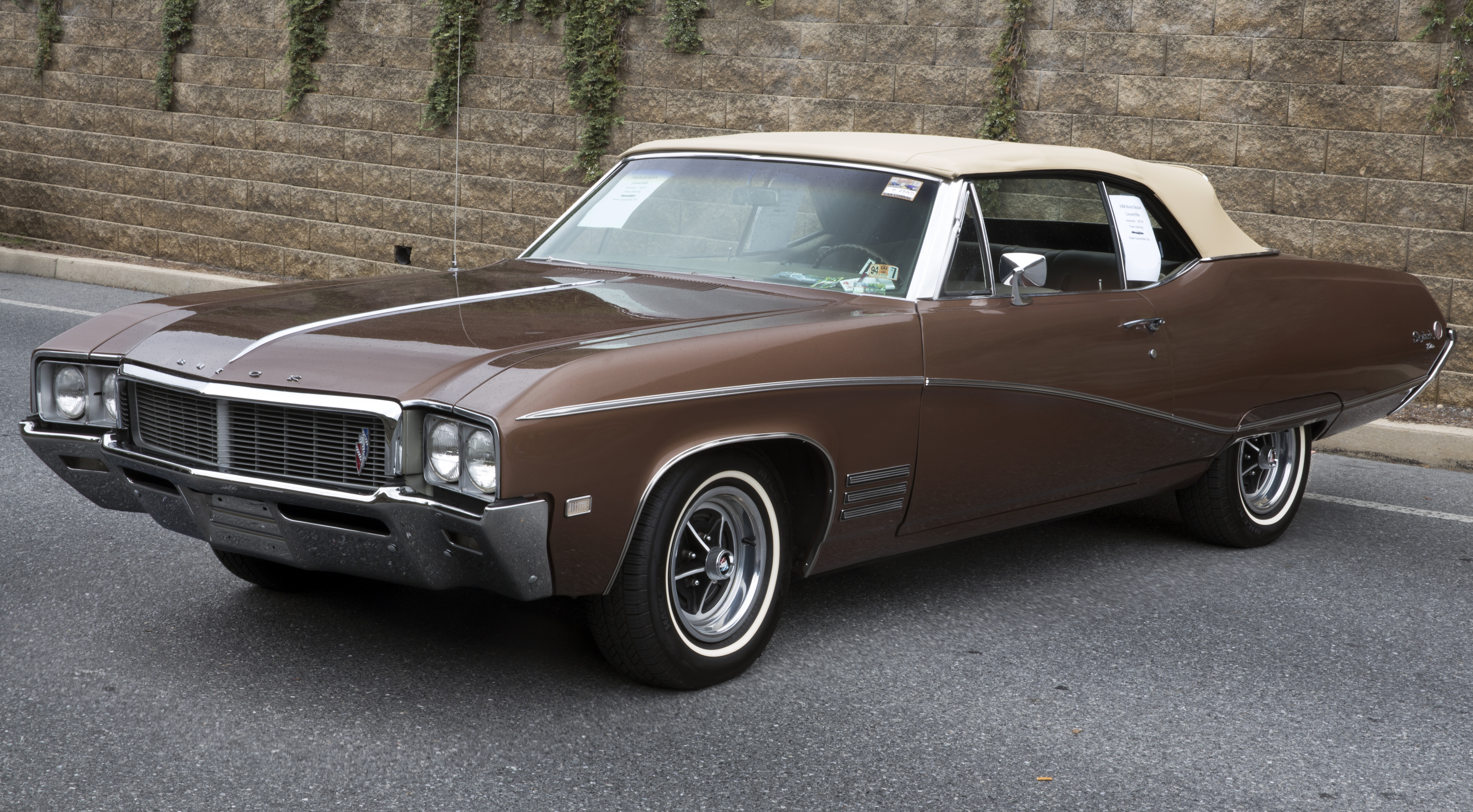 1968 Buick Skylark Custom Convertible (44467) offered for sale at Hershey 2019. 350 V8, automatic.